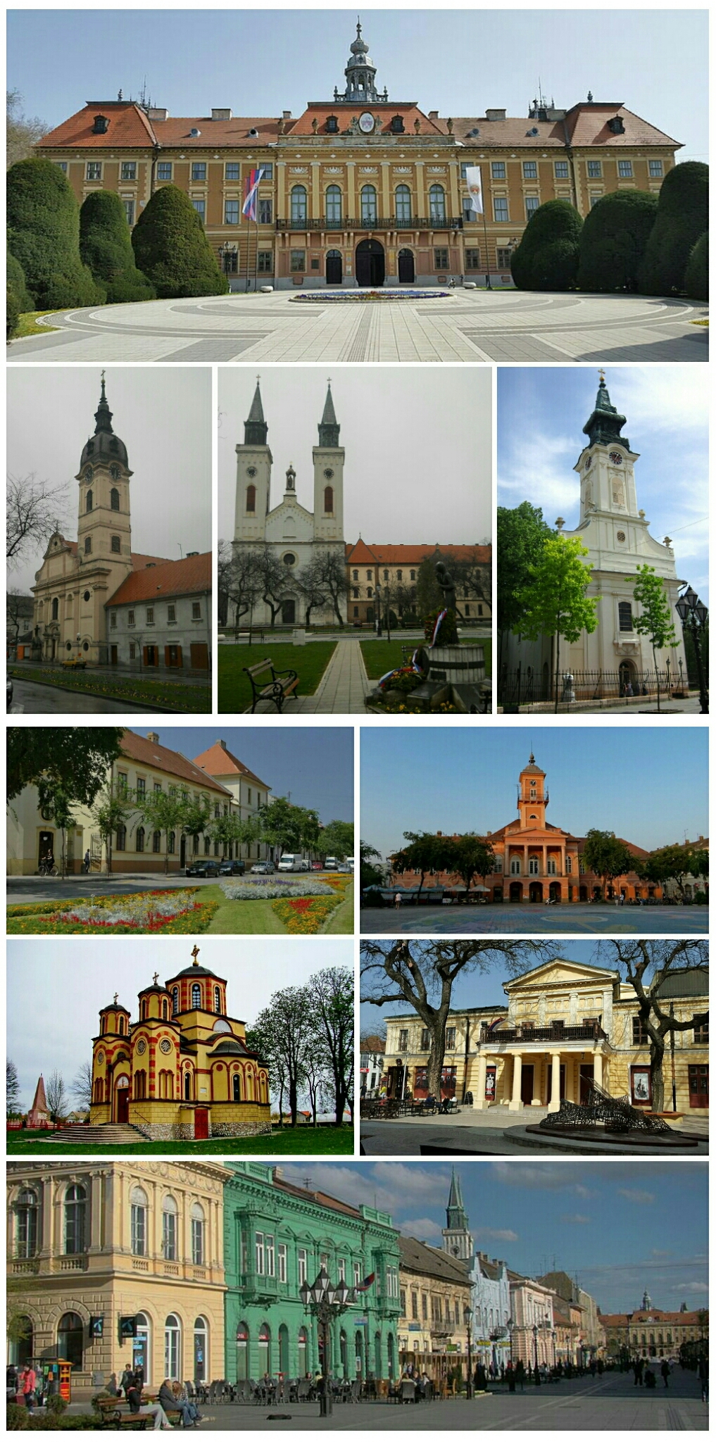 Photomontage of Sombor (Town hall in Sombor, Roman Catholic Church in Sombor, Carmelite church in the centre of the town, Church of St. George in Sombor, Krušper's palace, Old Town Hall, Monastery of the Holy Archbishop Stefan, Sombor theater building, Main pedestrian street)